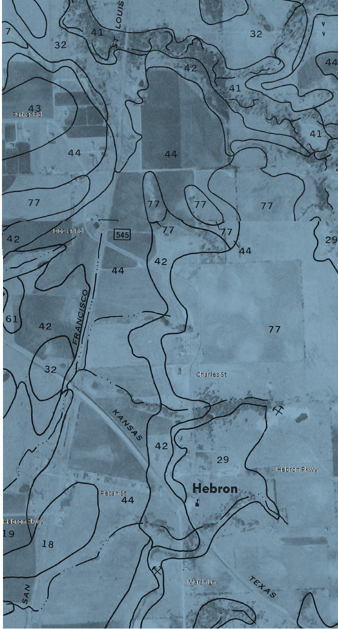 Aeriel Photograph of Hebron Town Center c. 1969